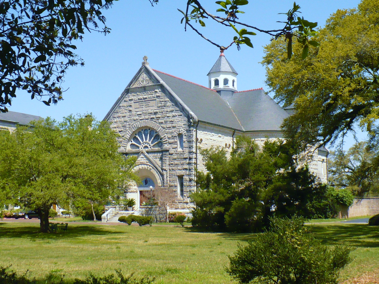 Sacred Heart Chapel at the Visitation Monastery in Mobile, Alabama. Part of the Historic Roman Catholic Properties multiple properties listing with the National Register of Historic Places.